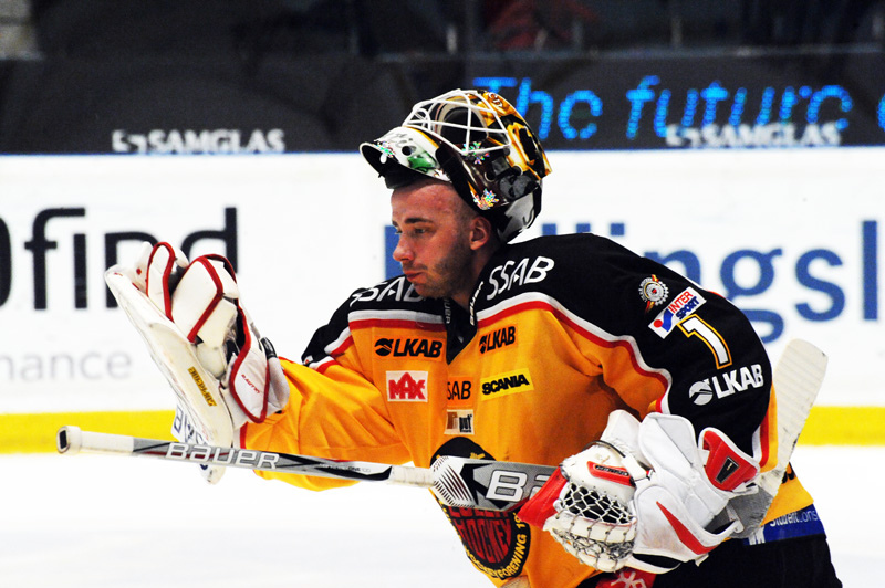 David Rautio during a SHL game against AIK.